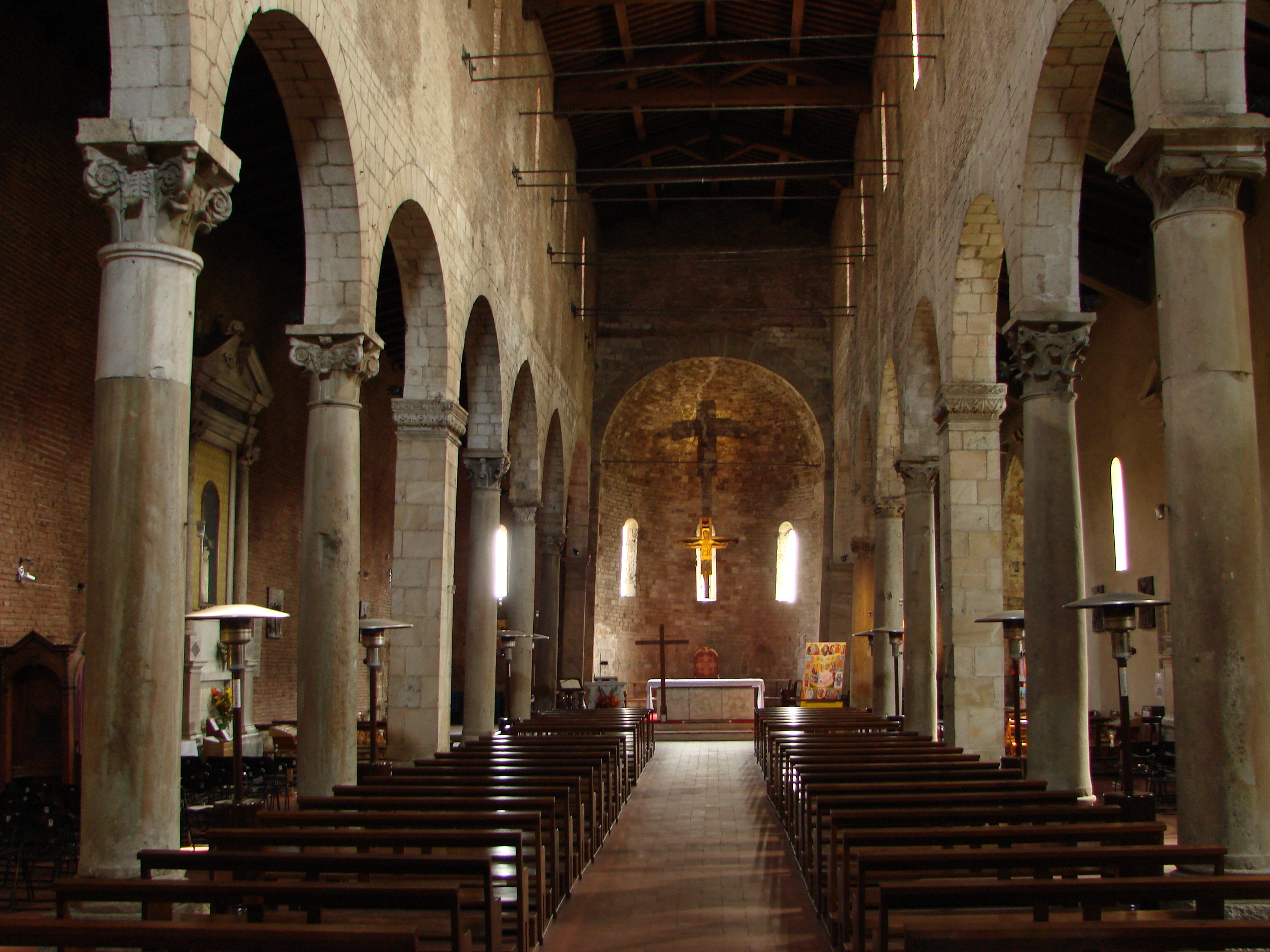 Church of San Michele degli Scalzi in Pisa - Inside (leaning)